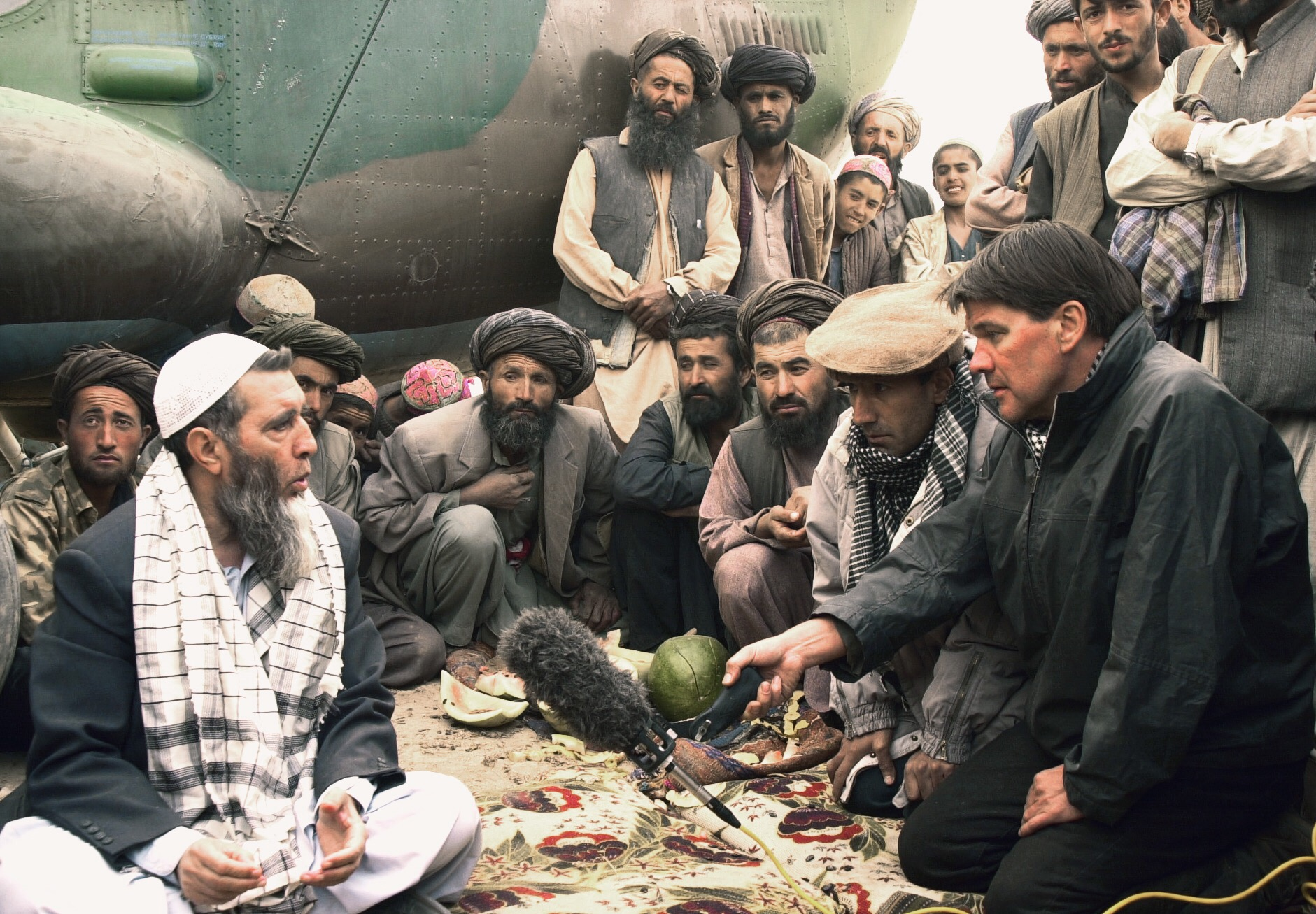 German journalist Udo Lielischkies (right) interviewing Said Nurrulah Immam, a leader of the Islamic movement, after a sandstorm forced the military helicopter of the Northern Alliance in which they were riding to make an emergency landing.